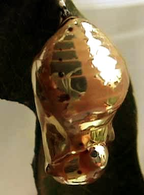 Common Crow (Euploea core) pupa on underside of Umbar leaf